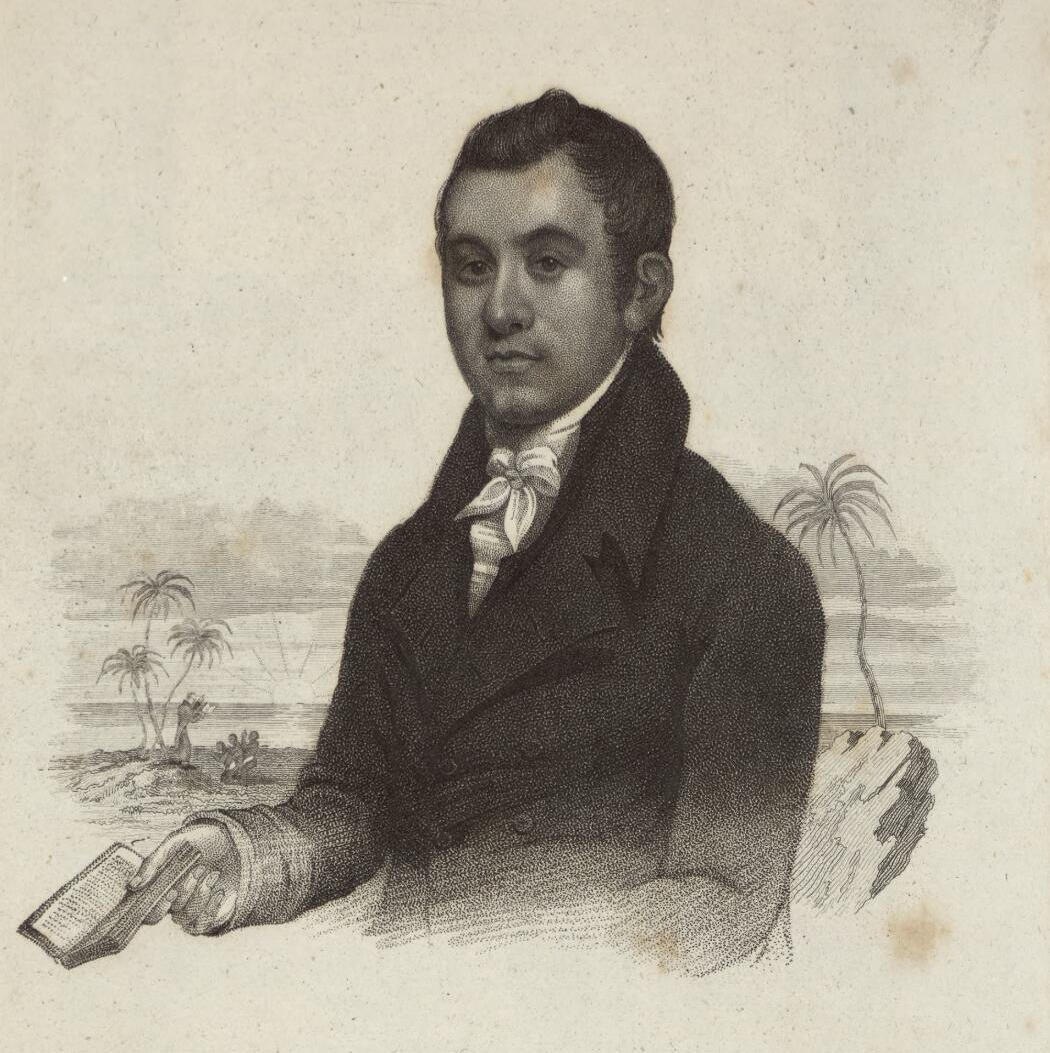 A portrait from the Welsh Portrait Collection at the National Library of Wales. Depicted person: William Milne – Missionary in China